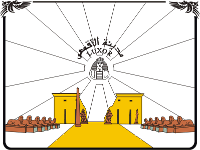 Flag of Luxor, detail, own work (J. Ollé, 2003)